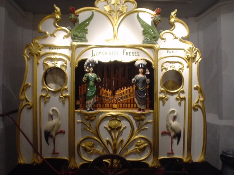 Limonaire Frères "De Gouden Limonaire" (1910) straatorgel 1 March 2007 A street organ. These take punch card strips like looms. It's not uncommon to see these around Dutch cities on sunny days. I think they're still popular because the country is so flat, so it's reasonable to move them around. Some are pulled by modified motorcycles, others by horses. Another visitor to the museum told me that they used to be even more common in her childhood. She said they would go around neighborhoods and all the kids would come out with coins to give to the organ operators. Then they would follow the organ around like a parade. At the clockwork instrument museum in Utrecht.